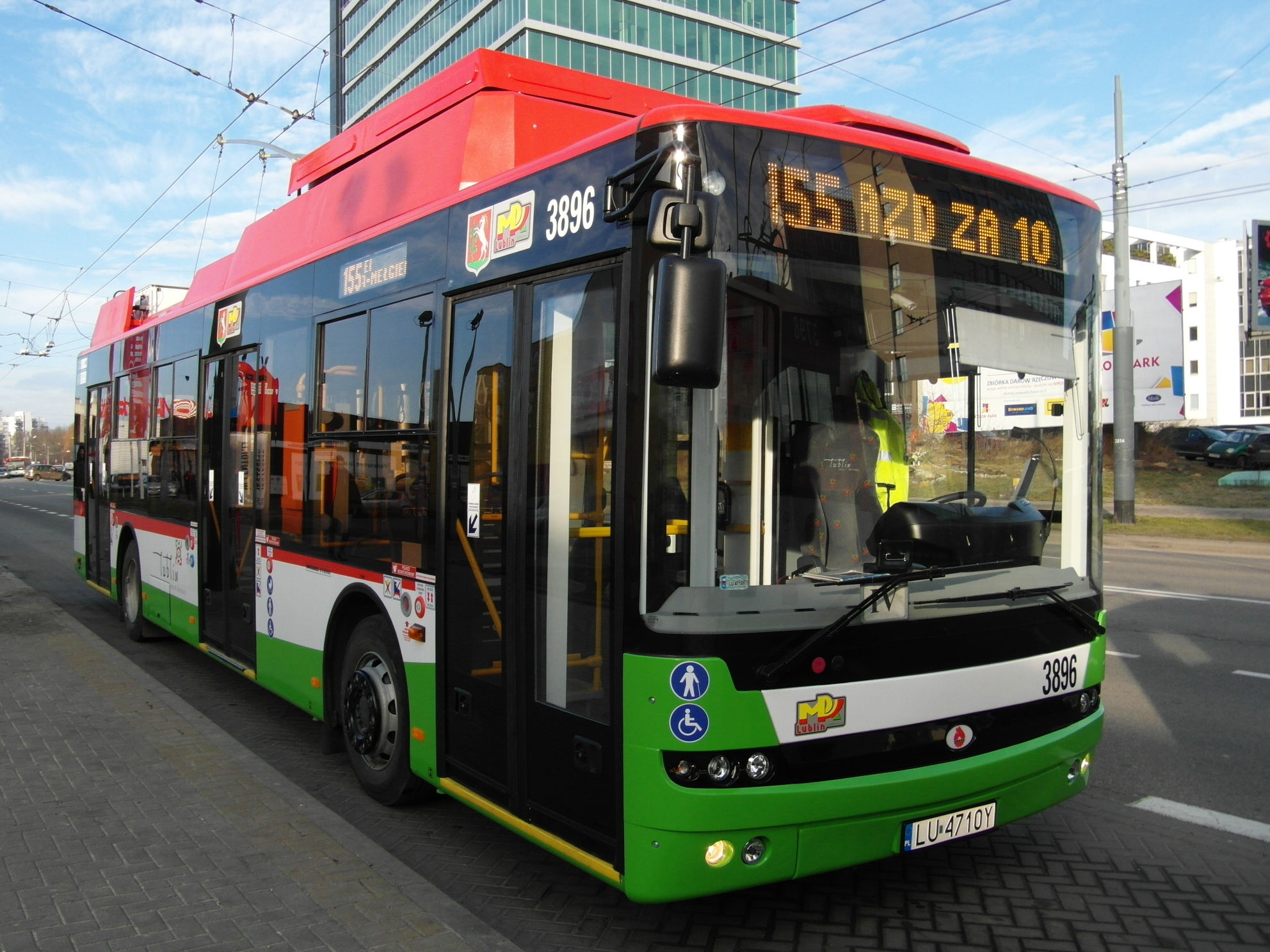 One of 38 trolleybuses jointly manufactured by Bogdan (Ukraine) and Ursus for Lublin in 2013–2015